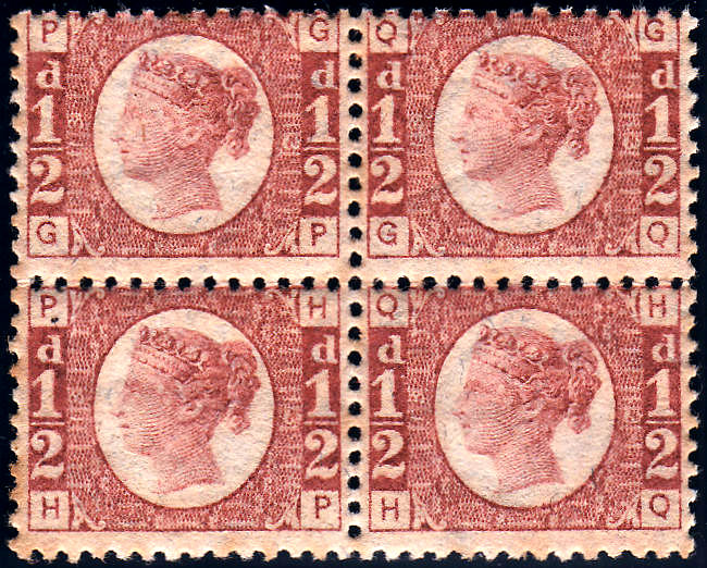 British 1870 half penny plate 13 stamps.